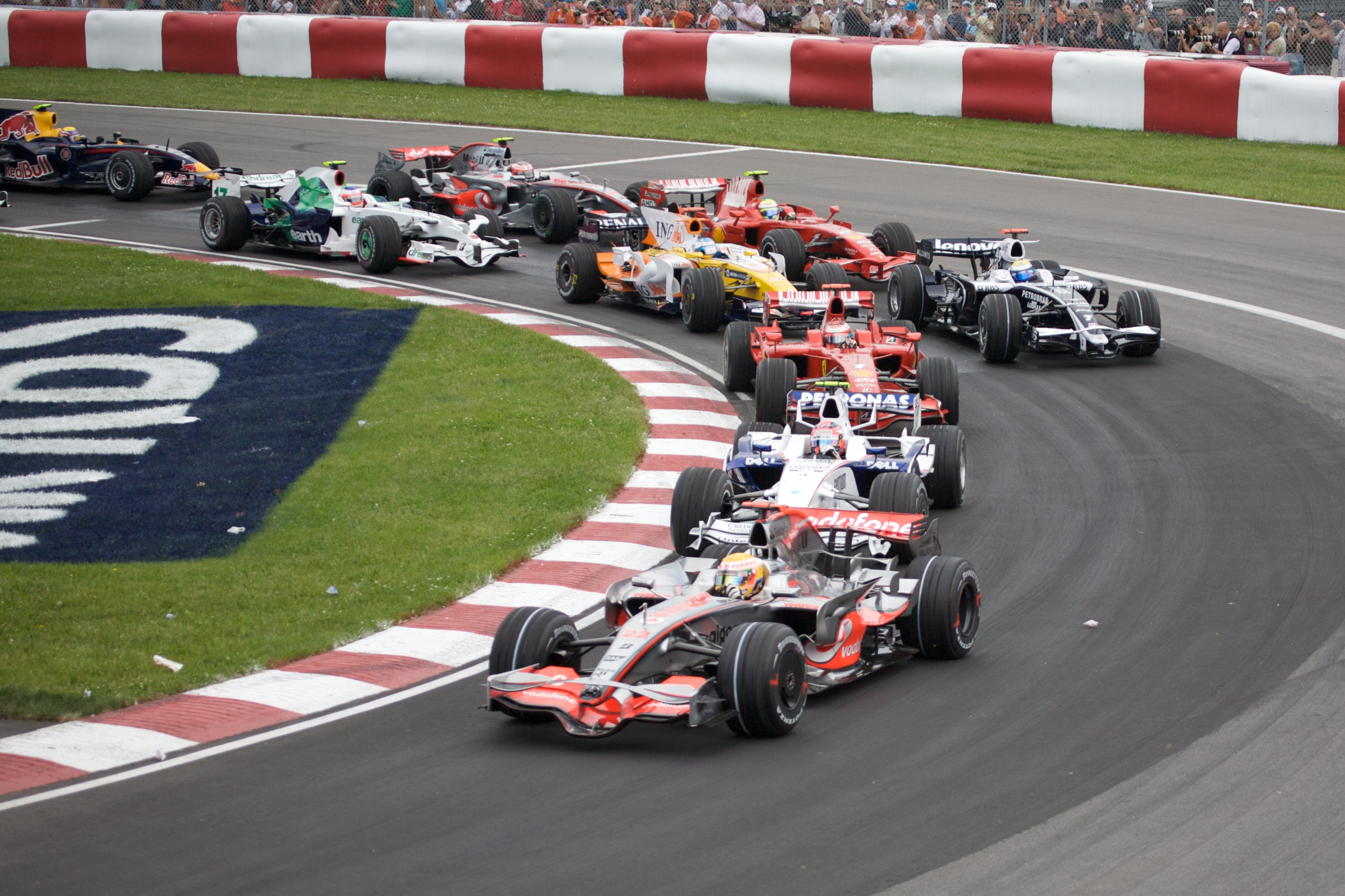 Canada Grand Prix 2008. A rare clean start for a Canadian GP. We're usually expecting to see the Safety car head out after the starting chaos has settled.